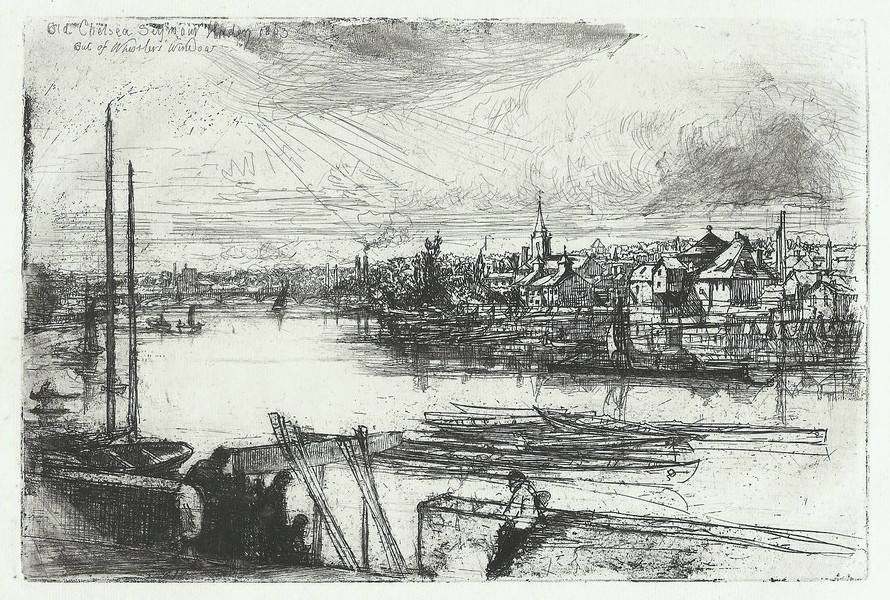 Old Chelsea Out of Whistler’s Window